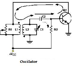 Armstrongov oscilator